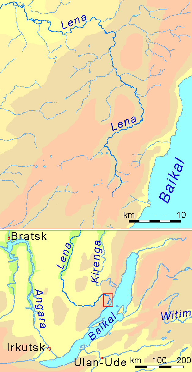 Two maps showing the relation of the sources of Lena river to lake Baikal